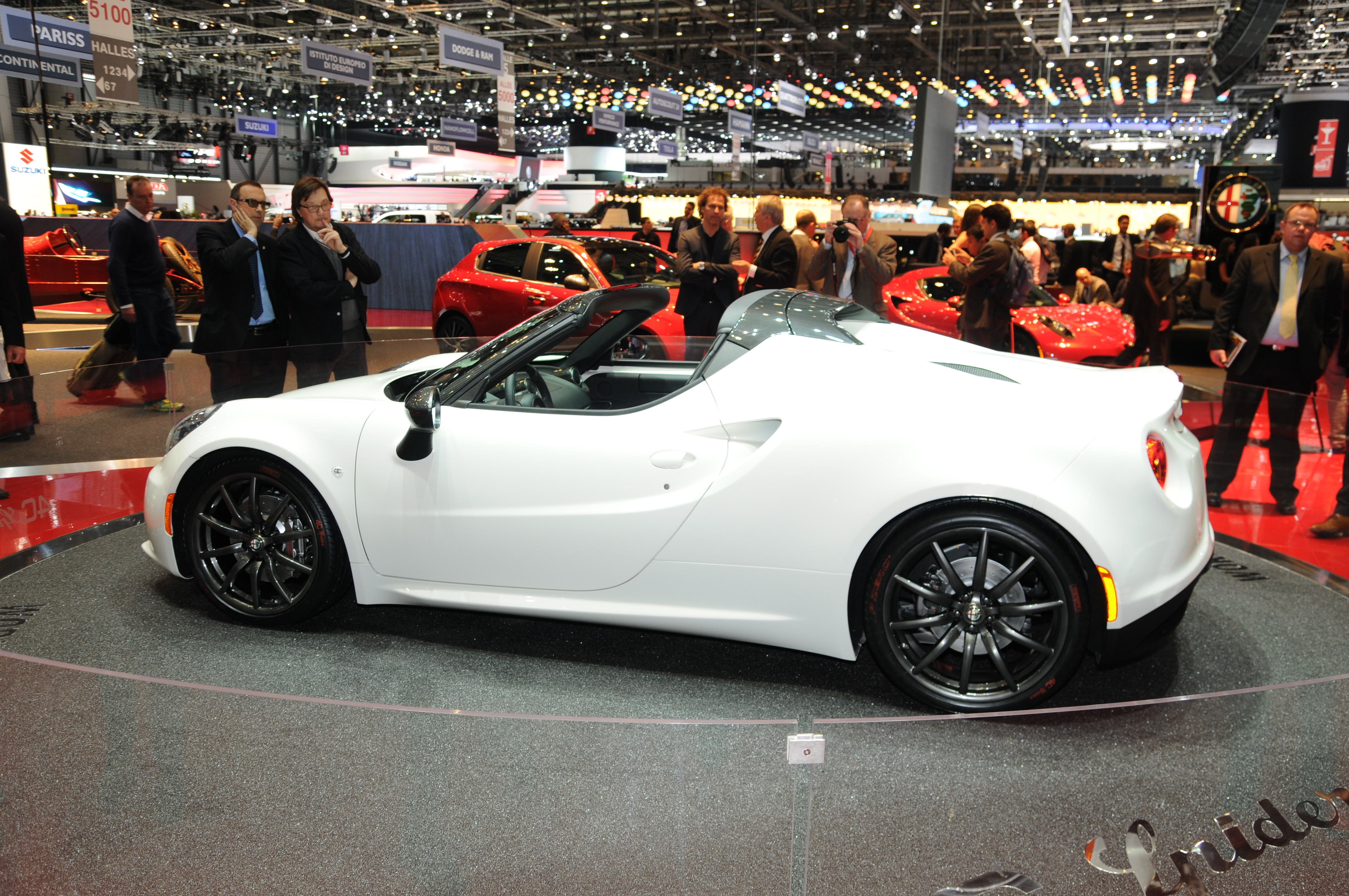 Geneva Motor Show 2014 (photo taken on the first press day)